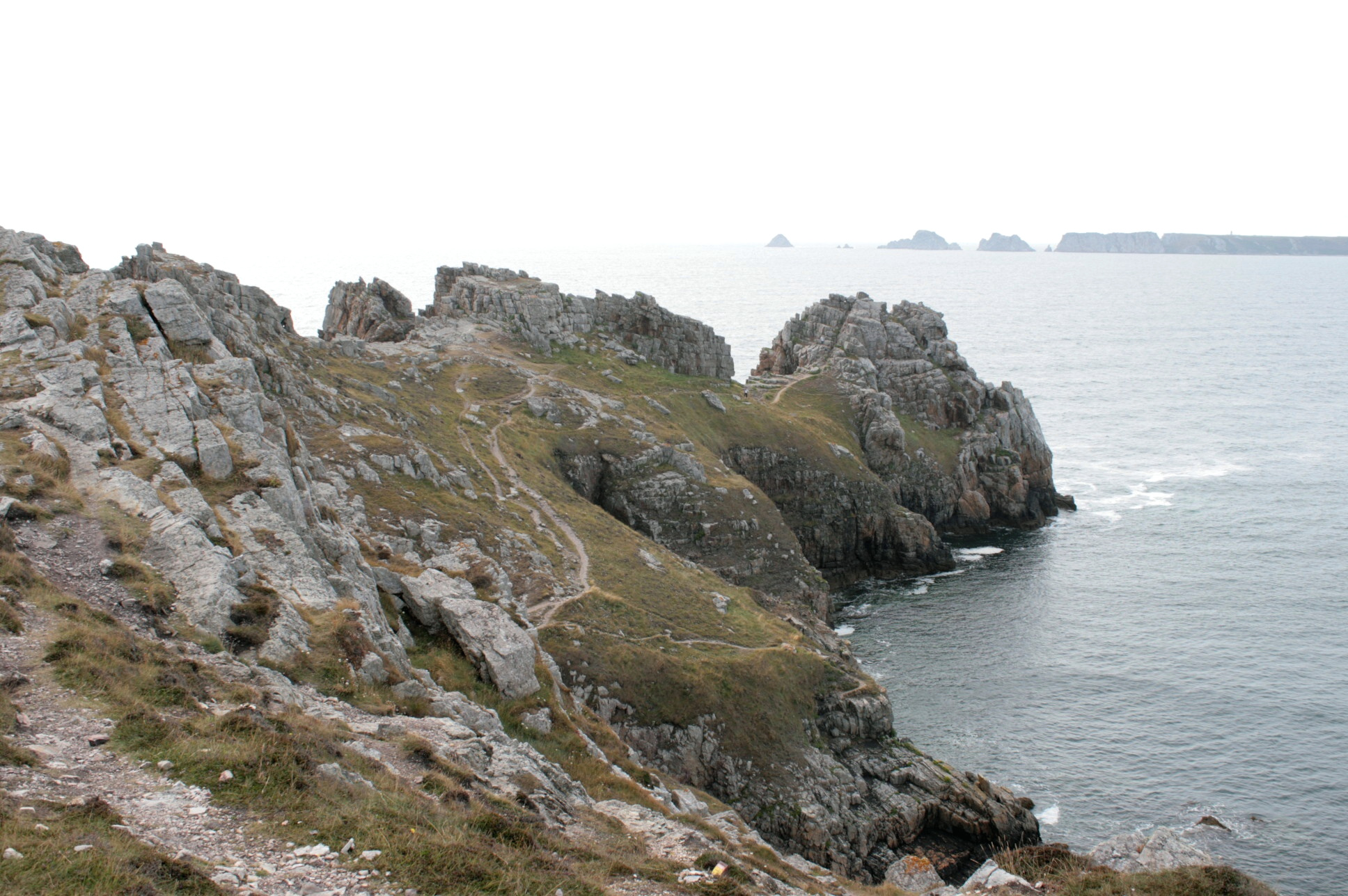 Pointe de Dinan